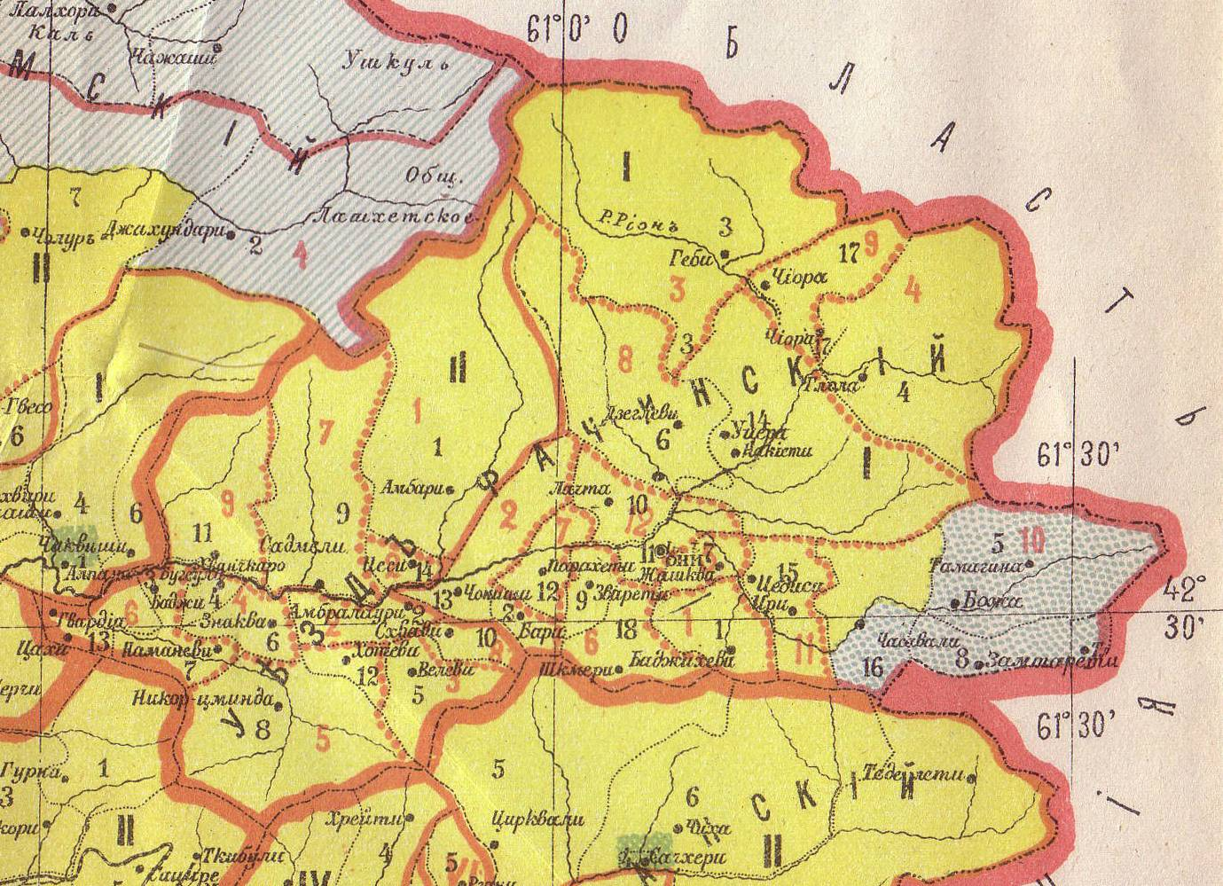 Ethnographic map of the Kutais Governorate